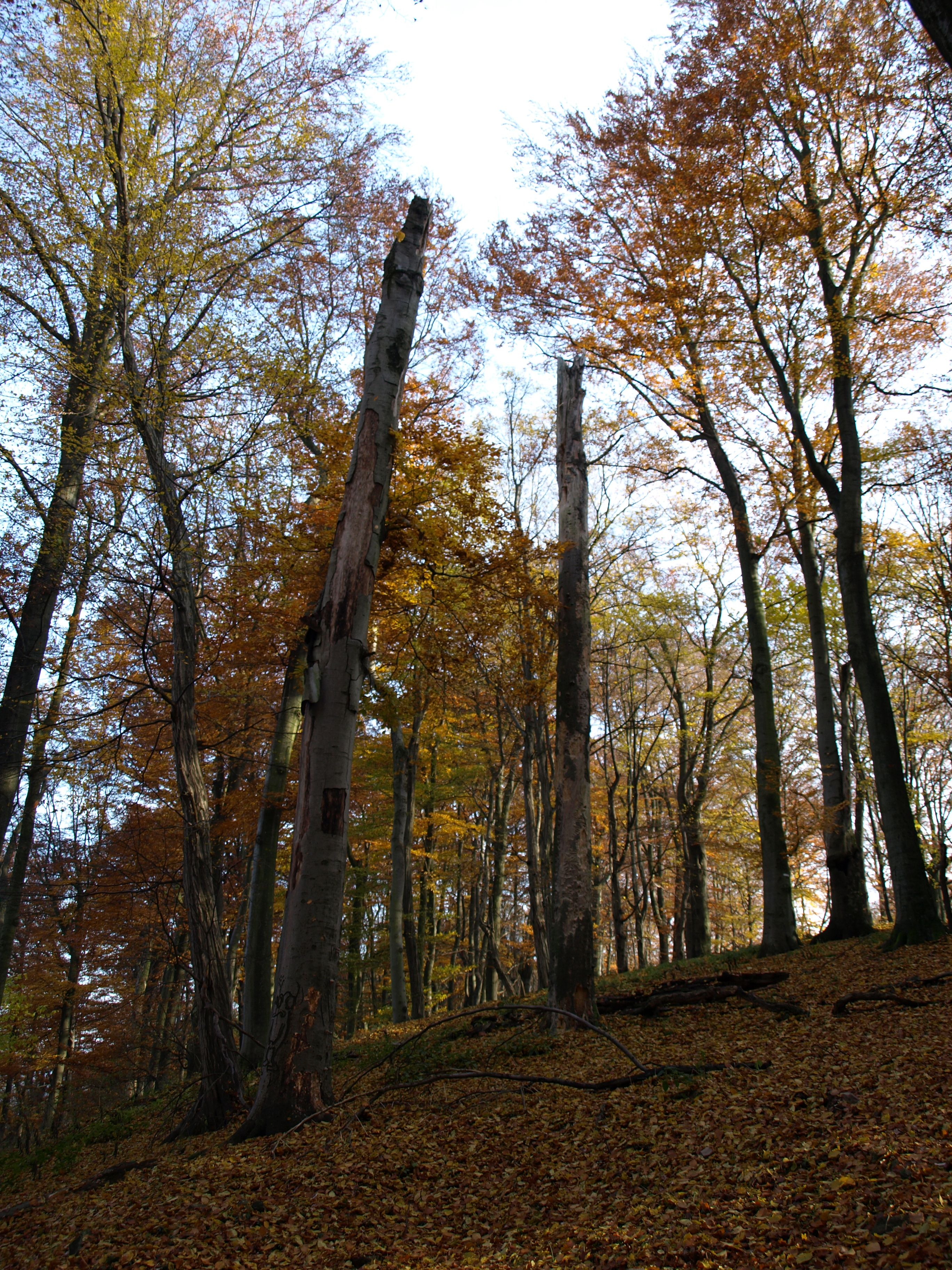 National nature reserve Ve Studeném in Benešov District, Czech Republic